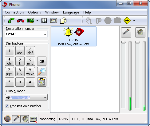 Screenshot of Phoner 2.77 under Windows 7.